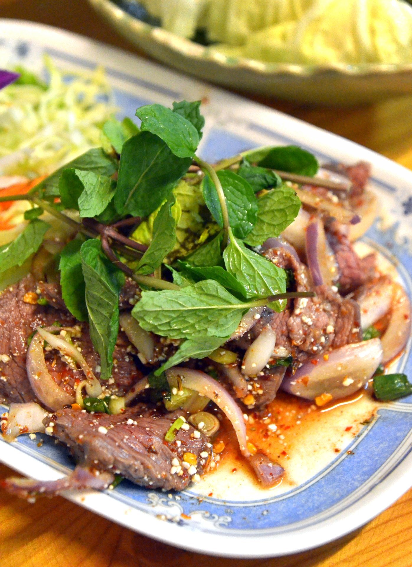 Nuea yang nam tok (Thai script: เนื้อย่างน้ำตก) is sliced grilled beef served with a spicy and sour dressing made with lime juice, dried chilli flakes, ground roasted rice, fish sauce, sliced shallots and mint leaves. It is traditionally eaten with sticky rice. Some raw vegetables, such as cabbage or string beans, are normally served on the side.